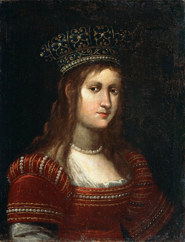 Maria Magdalena of Austria